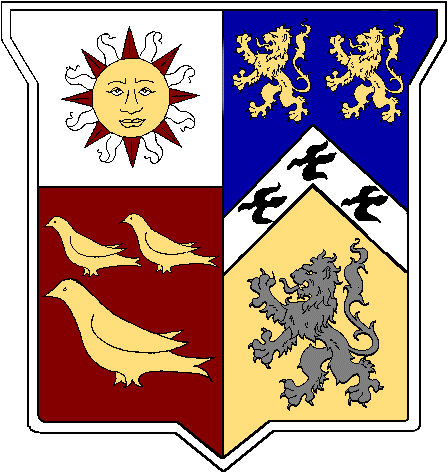 The coat of arms for Camp Meriwether of Cascade Pacific Council, BSA taken from the Meriwether Lewis Family Crest